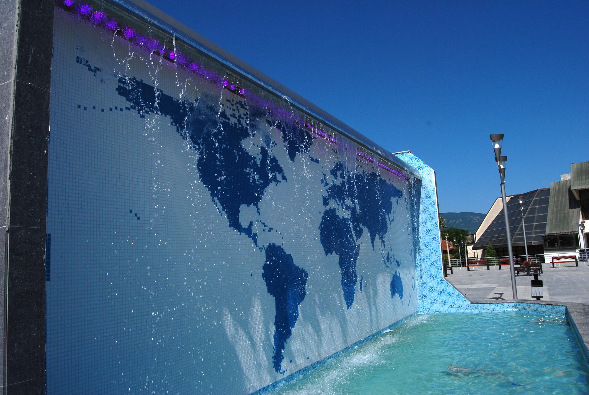 Square Goce Delcev (Strumica)